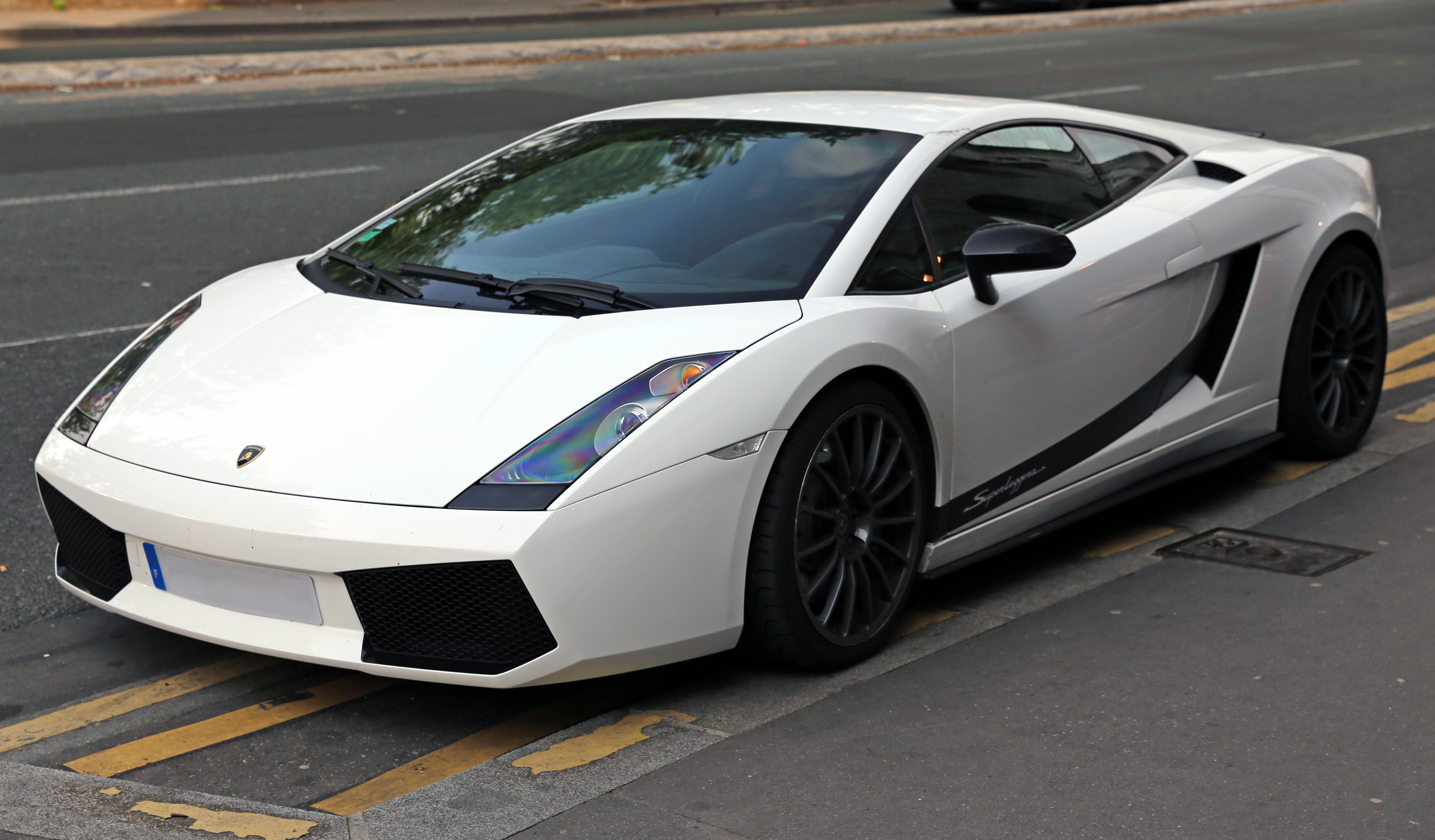 Lamborghini Gallardo Superleggera in Paris.